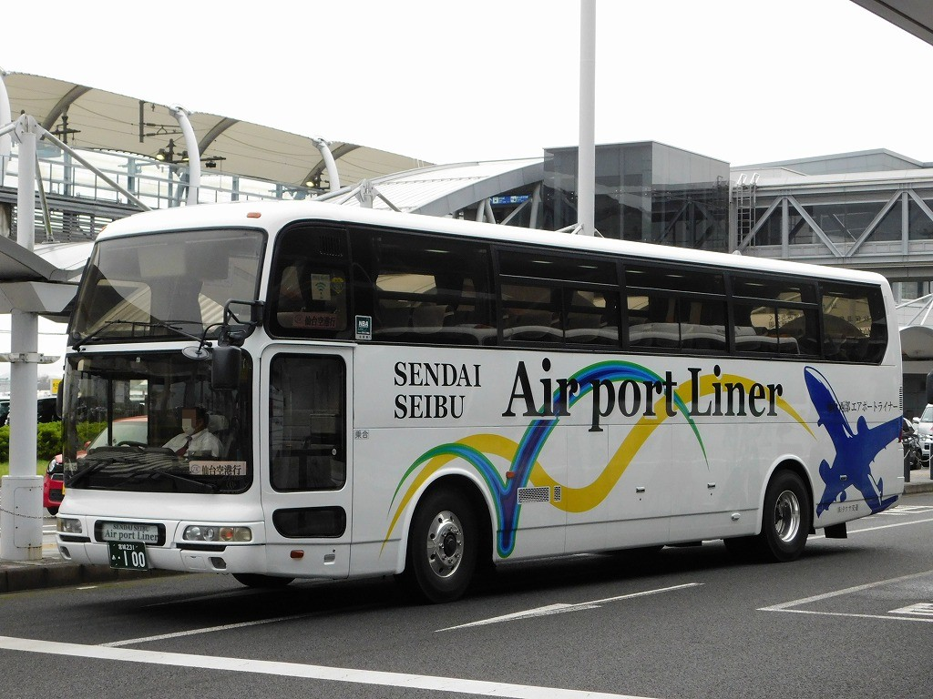 Takeya kotsu Mitsubishi Fuso Aero Queen II Sendai west airport liner (Sendai Airport-Akiu Onsen,Kawasaki town)